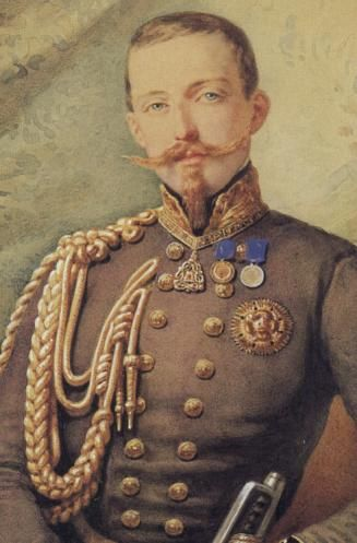 Ferdinand of Savoy, 1st Duke of Genoa